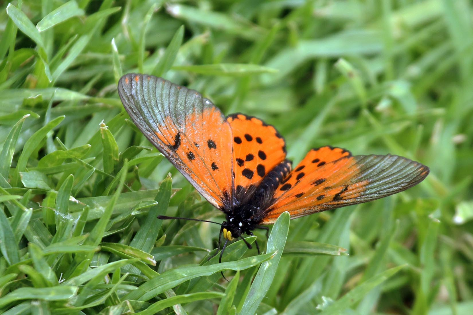 Garden acraea butterfly (Acraea horta) male, Johannesburg, South Africa